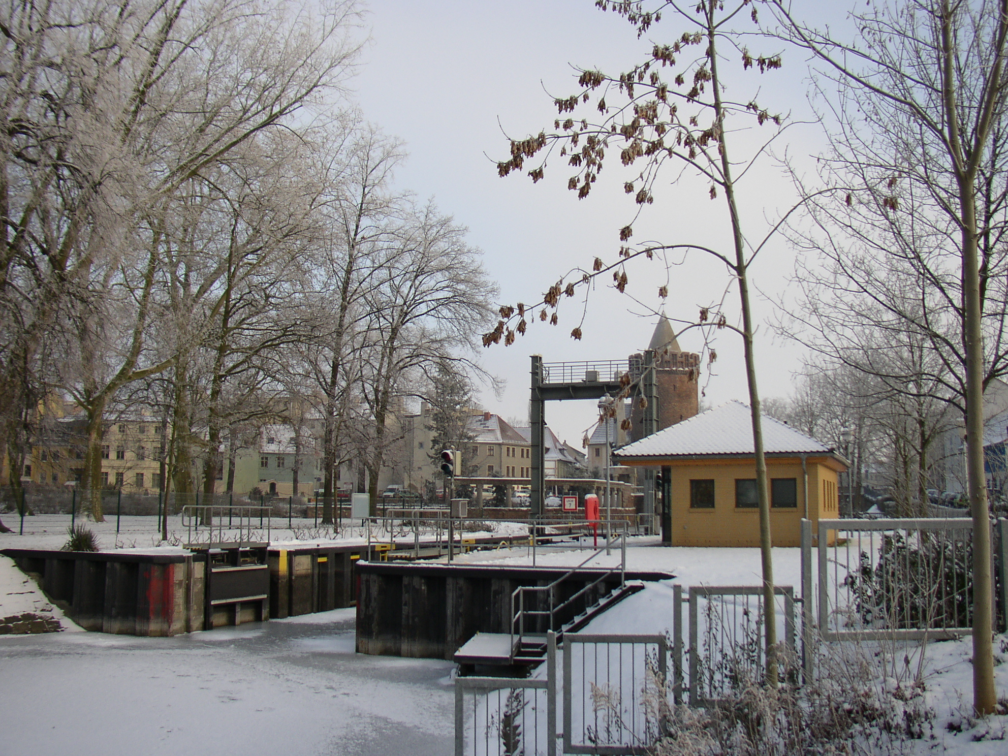 The old innercity lock in the town Brandenburg (Germany) in january 2009